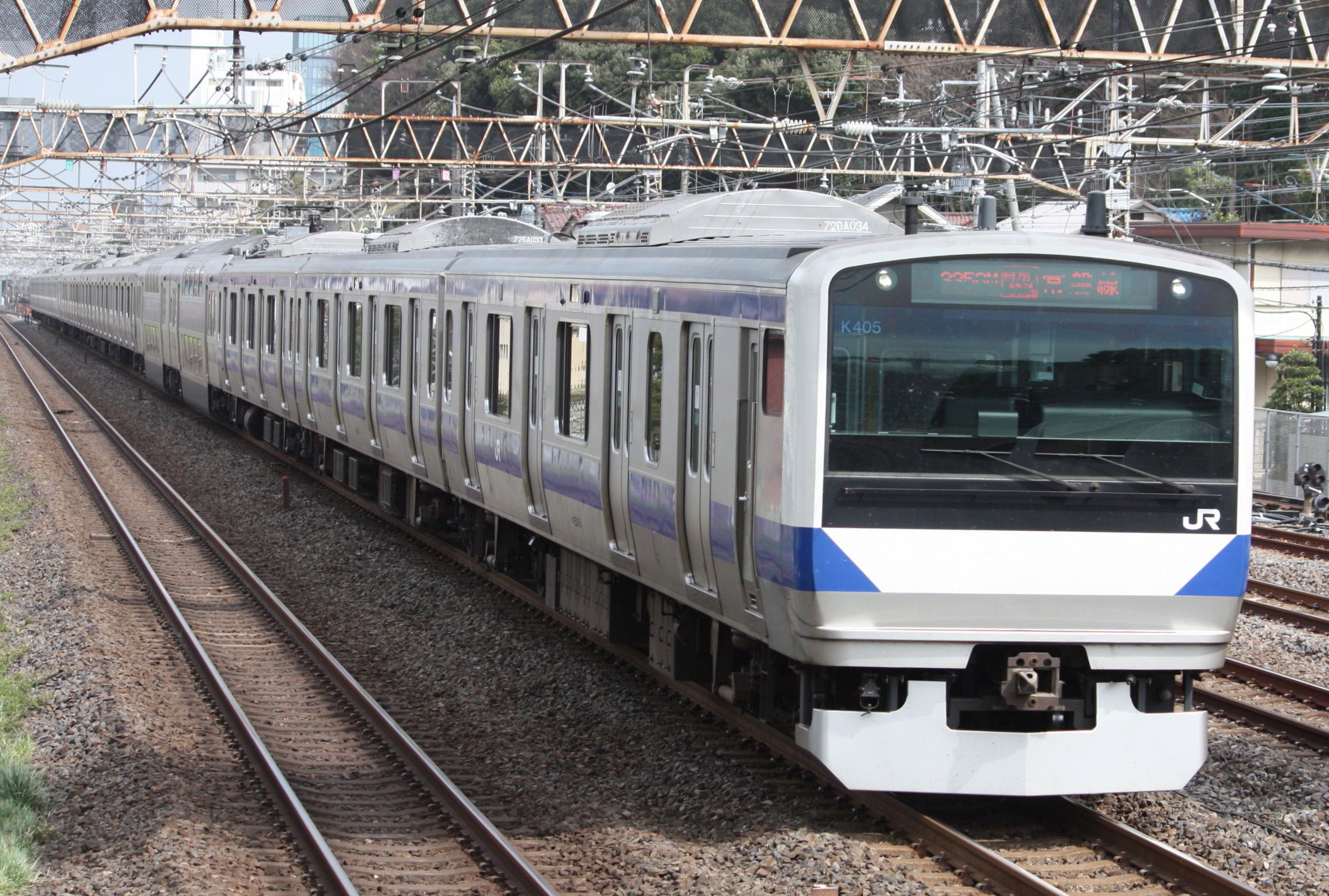 JR East E531 series Basic 10-car EMU (after changing the bumper) (Taken between Matsudo Station and Kanamachi Station, Joban Line)